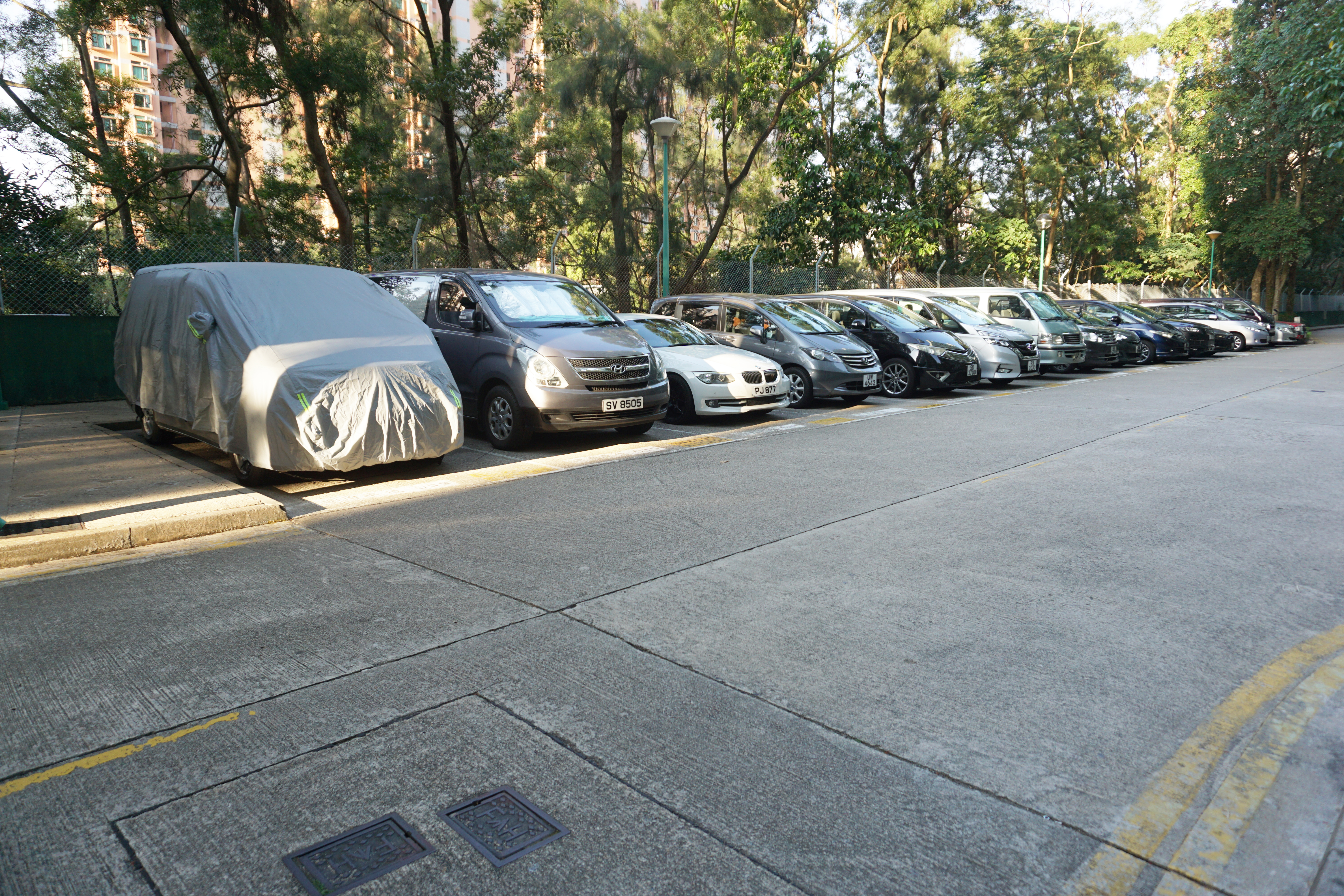 Saddle Ridge Garden in Ma On Shan, Hong Kong.